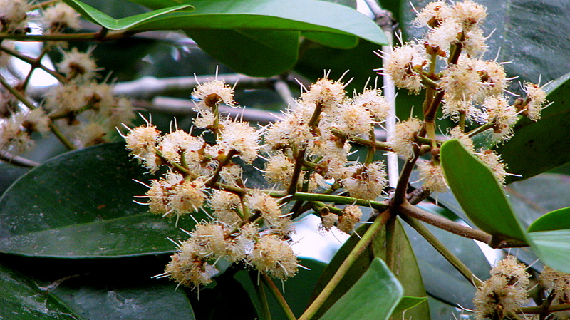 Calyptranthes clusiifolia